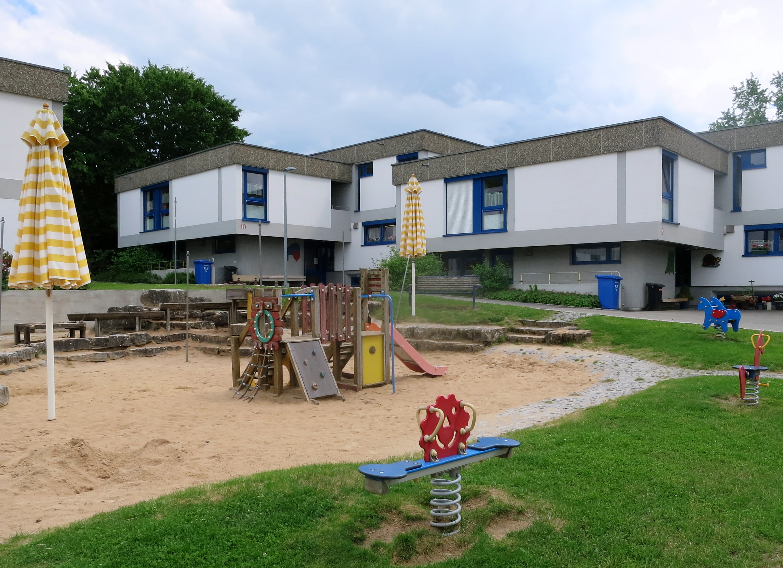 Village for children - pictures of the site Marienpflege Ellwangen